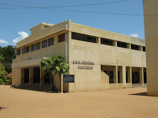 Main Building